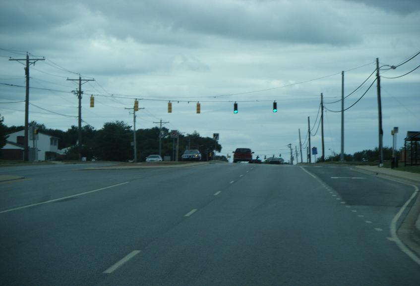 Southbound Delaware Route 141 (Basin Road) at the entrance to William Penn High School near New Castle, Delaware.